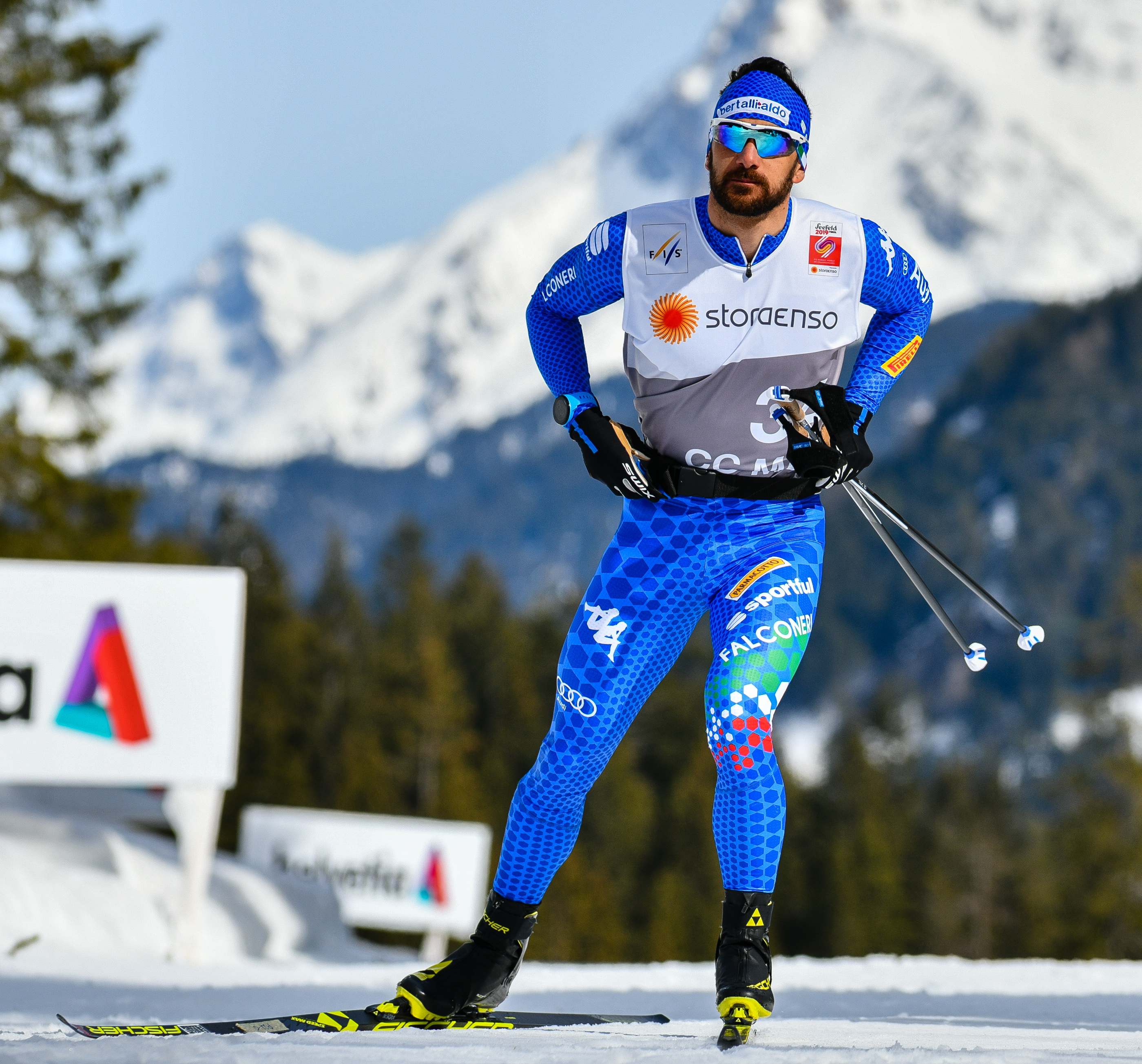 FIS Nordic Wolrd Ski Championships Seefeld 2019 - Men Cross Country 50km Mass Start Free. Picture shows Mirco Bertolina (ITA).